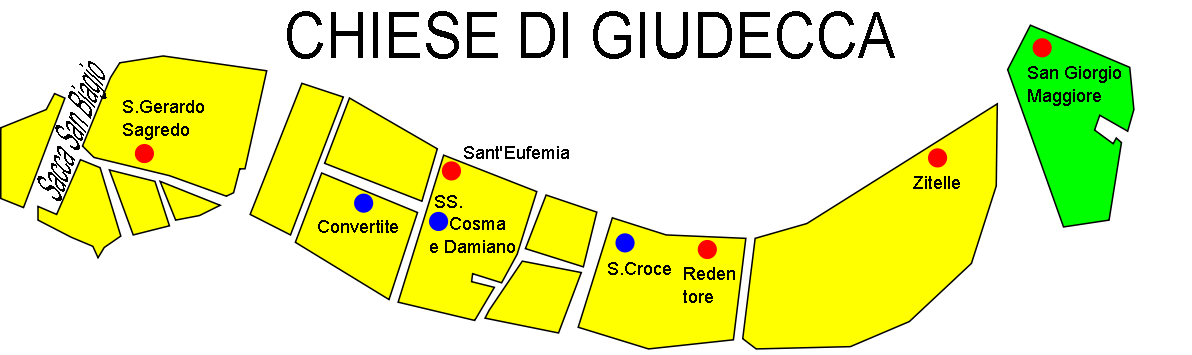 map of churches in giudecca and san Giorgio maggiore